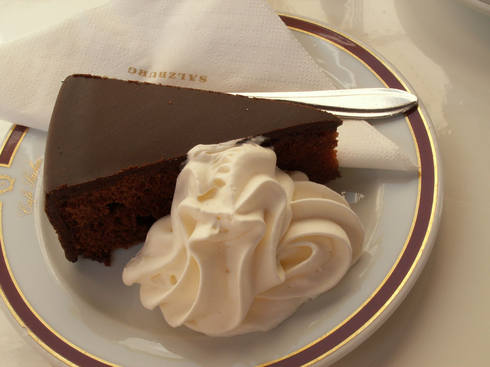 Salzburg Sachertorte with whipped cream